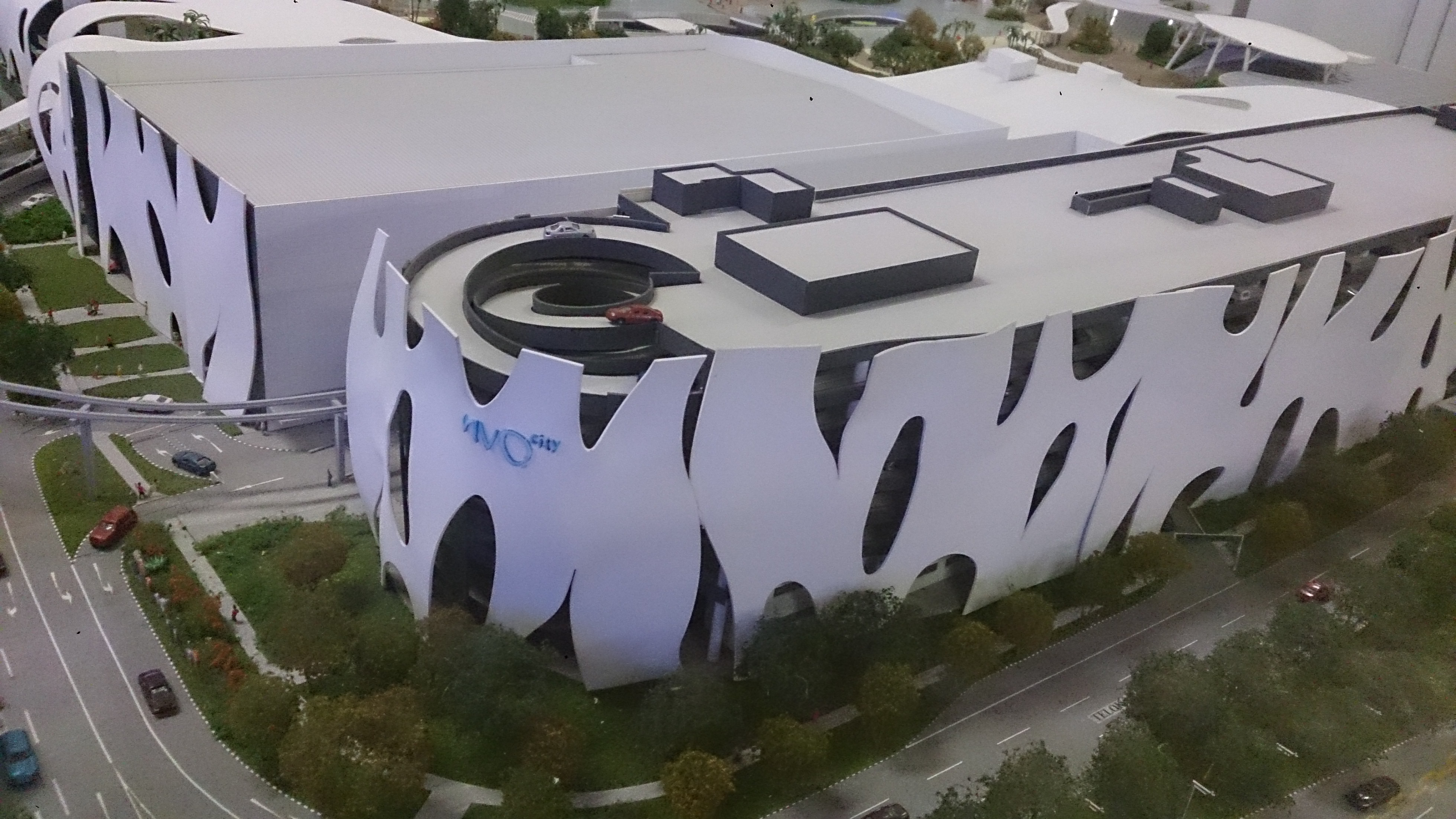 Architectural model of Vivocity, Singapore. Displaying its unique facade